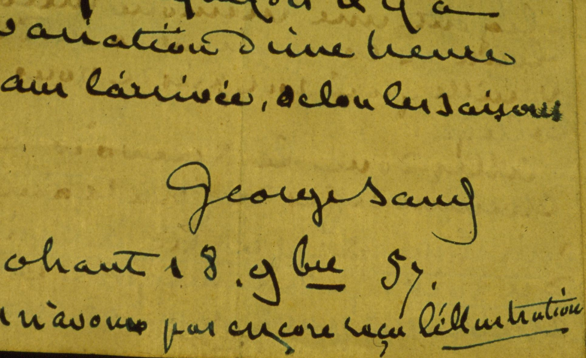 Signature of George Sand (1804-1876).